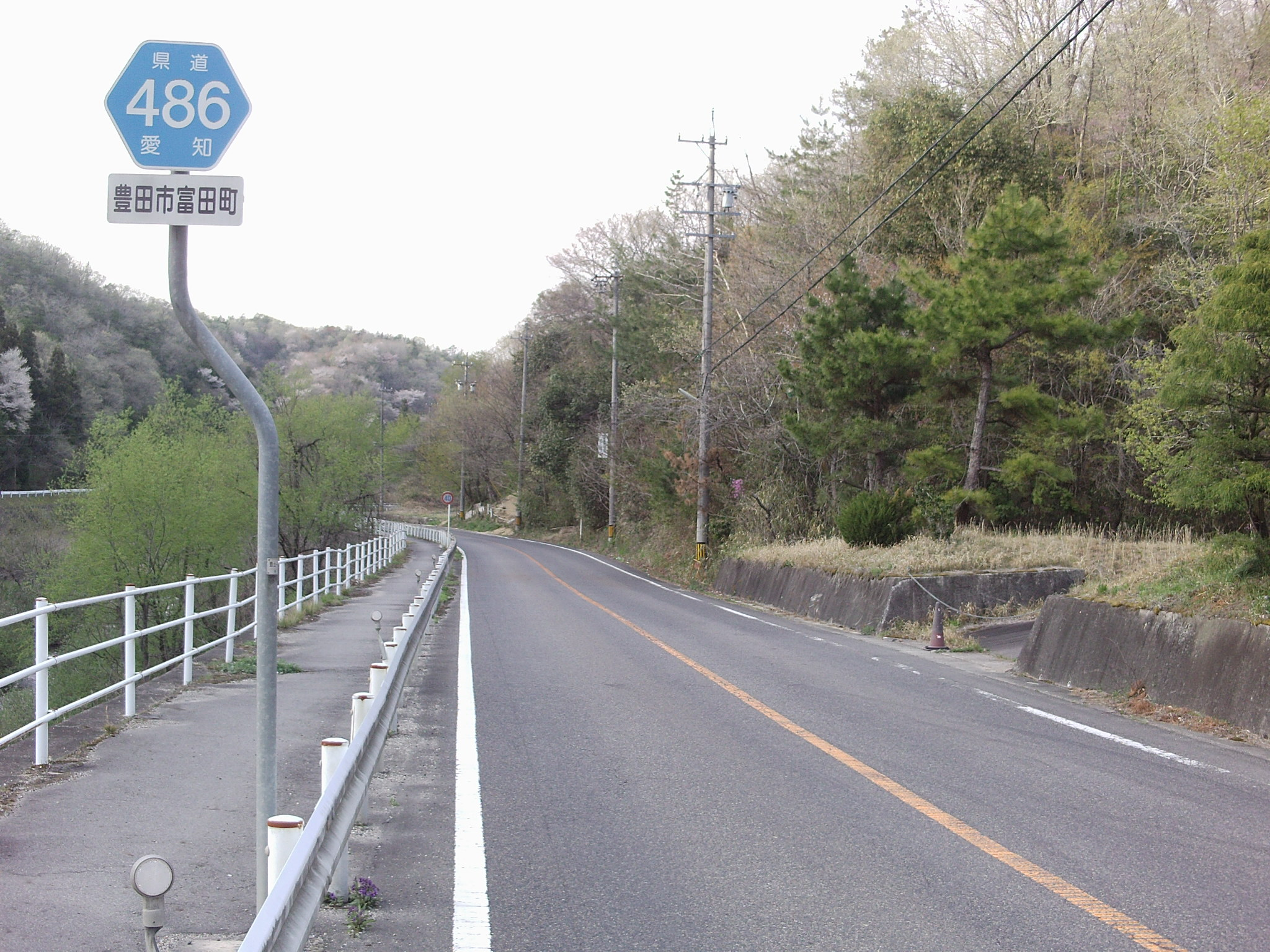 Aichi prefectural road No.486 in Tomidacho, Toyota, Aichi.